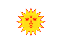 Sitamau state flag